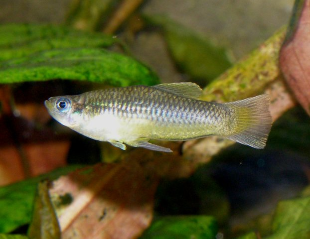 Isthmian priapella, male